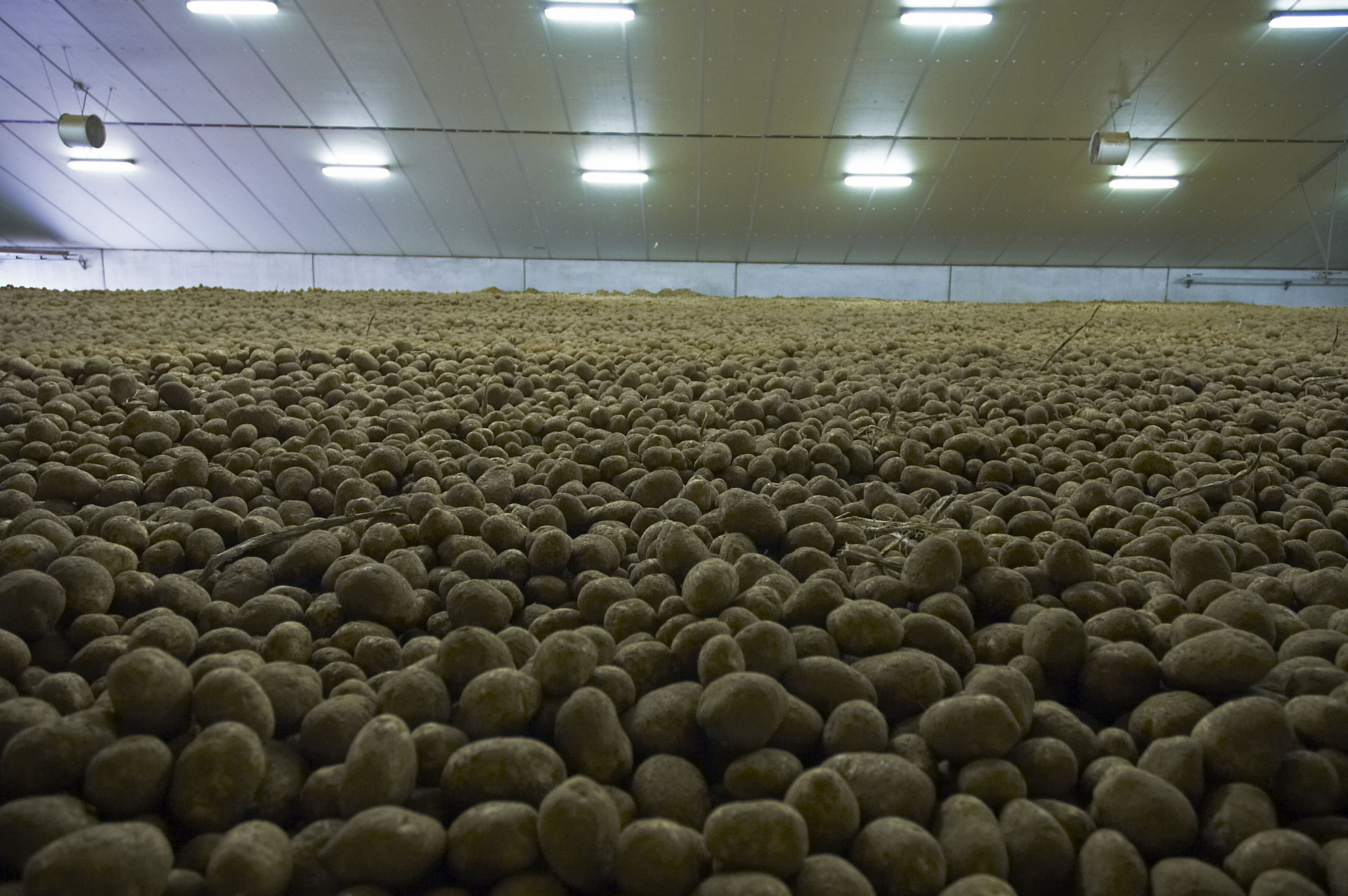 Storage hall for potatoes in Belgium